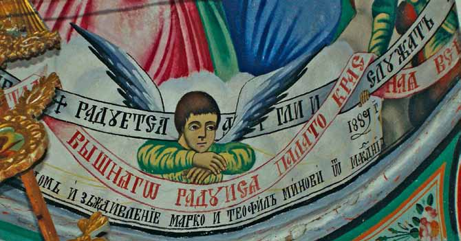 Saints Cyril and Methodius Church in Bagrentsi Angel and Inscription Fresco